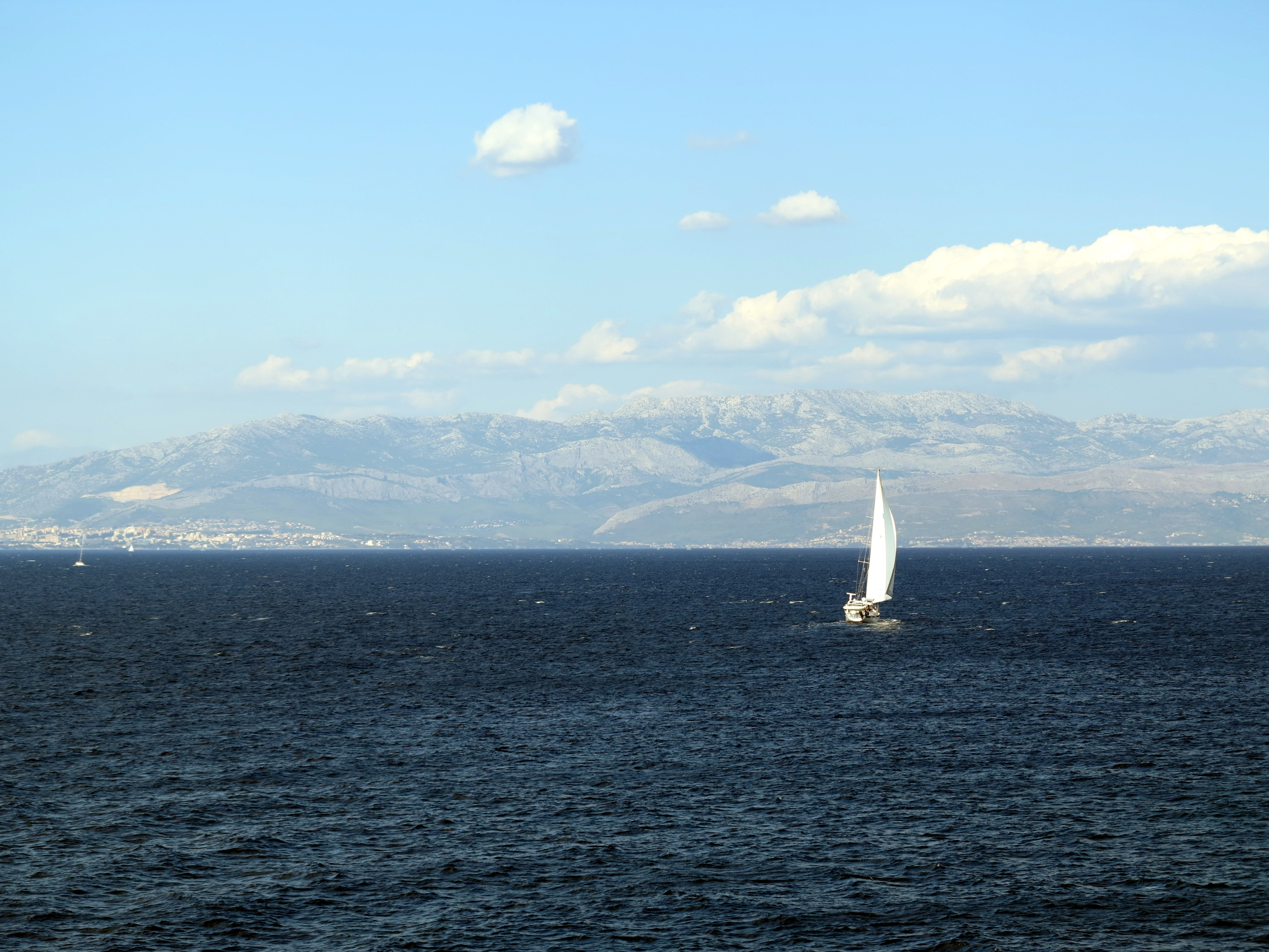 Rogač on the island Šolta / Croatia / Adriatic Sea.